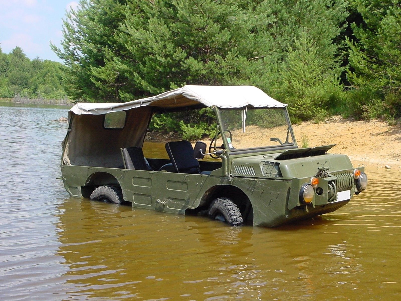 Luaz 967M in France.